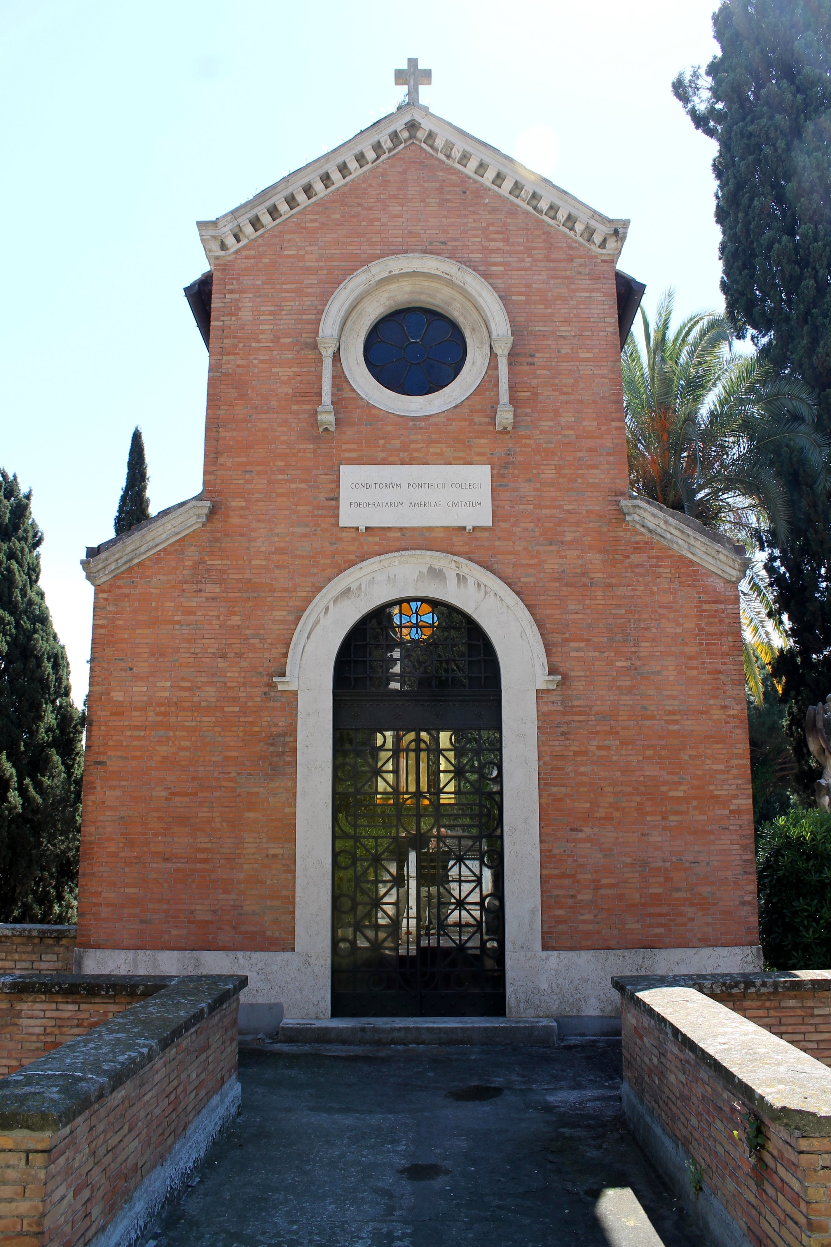 The mausoleum of the Pontifical North American College in Rome's Campo Verano cemetery. Constructed in 1913.